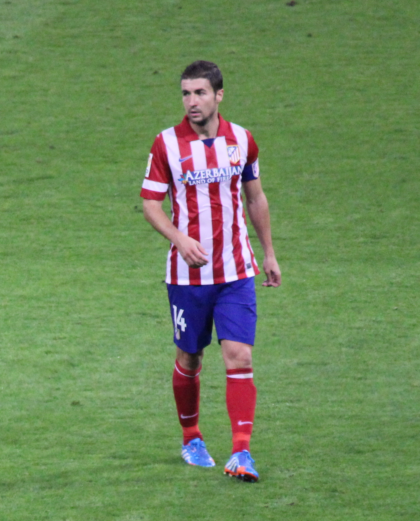 Real Madrid vs. Atlético Madrid 28 September 2013.